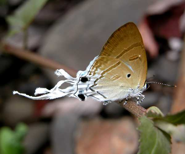 The Fluffy Tit (Zeltus etolus), Family Lycaenidae, Lepidoptera taken at Jairampur, Arunachal Pardesh, India.